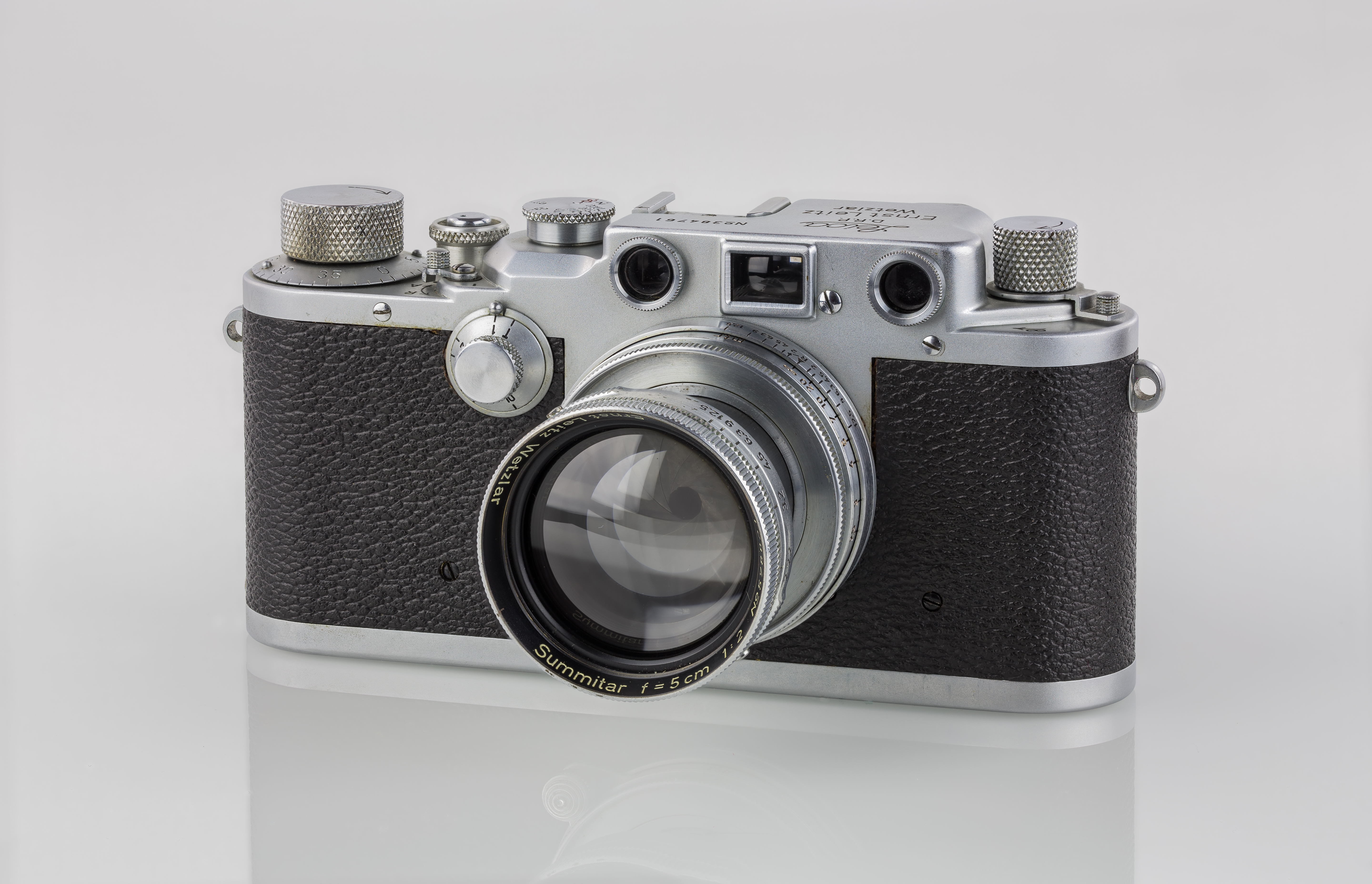 Leica IIIc chrome - Serial number 384761, Year of production 1941- Mount: M39; Leitz Summitar 1:2 f=5 cm lens